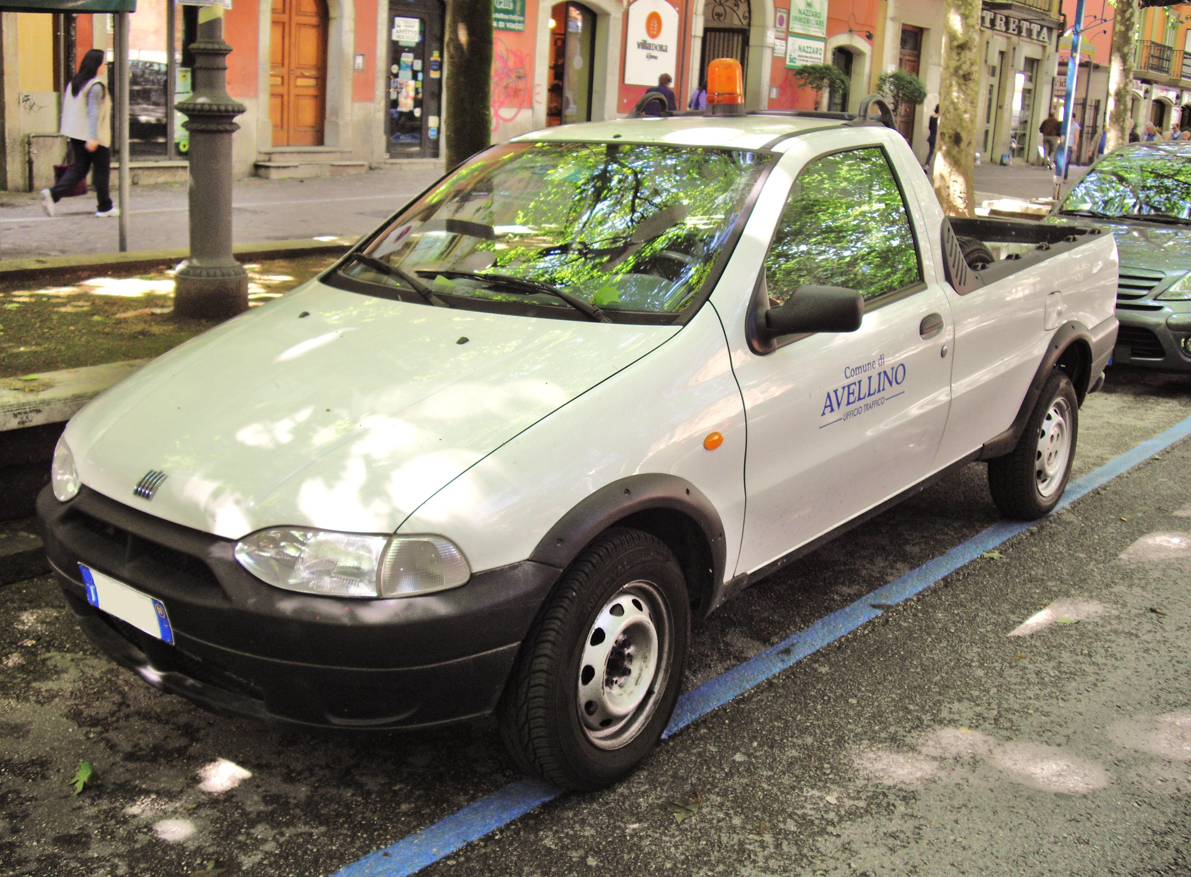 Fiat Strada MK1 pick-up